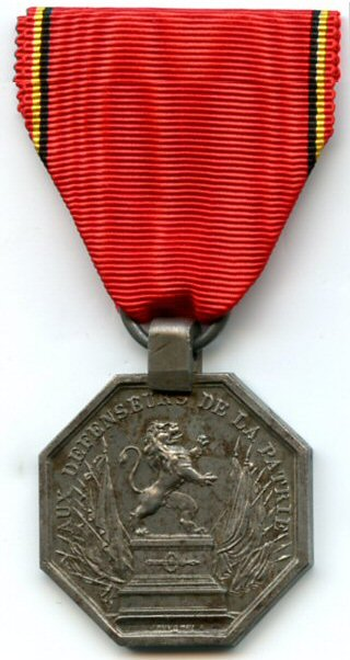 Iron Cross 2nd class (1833), also called the Iron Medal. Belgian award of their war of independance 1830.